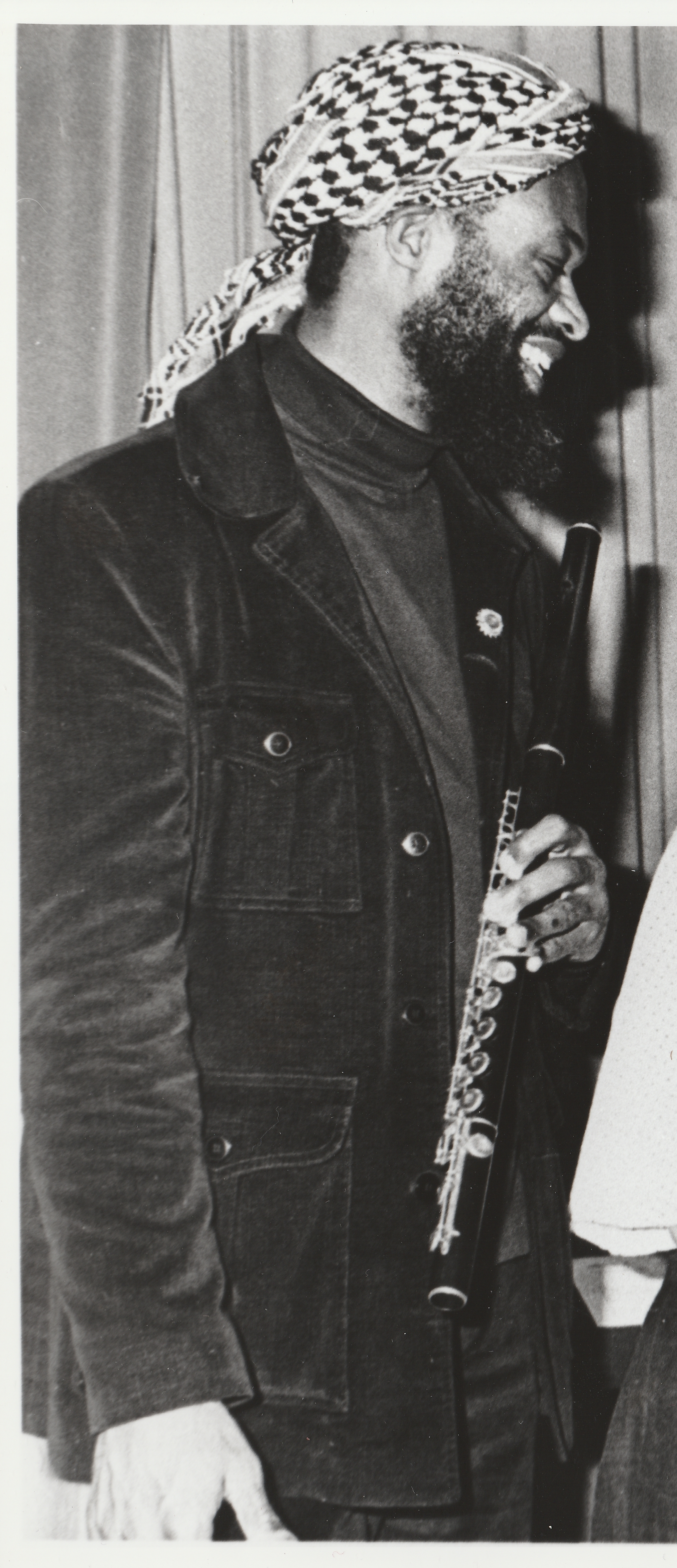 Sayyd Abdul Al-Khabyyr, cropped from Trio 3 photo